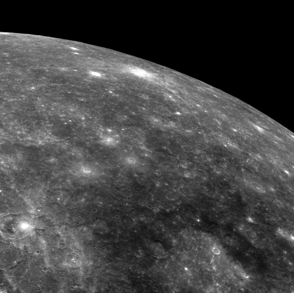 The Tolstoj basin (355 km in diameter) can be seen at the bottom edge of the frame, its center filled with smooth plains and surrounded by a large region of low-reflectance ejecta. The fresh, bright-rayed crater Nureyev is visible near the limb. This image was acquired as part of MDIS's limb imaging campaign. Once per week, MDIS captures images of Mercury's limb, with an emphasis on imaging the southern hemisphere limb. These limb images provide information about Mercury's shape and complement measurements of topography made by the Mercury Laser Altimeter (MLA) of Mercury's northern hemisphere. The MESSENGER spacecraft is the first ever to orbit the planet Mercury, and the spacecraft's seven scientific instruments and radio science investigation are unraveling the history and evolution of the Solar System's innermost planet. During the first two years of orbital operations, MESSENGER acquired over 150,000 images and extensive other data sets. MESSENGER is capable of continuing orbital operations until early 2015.